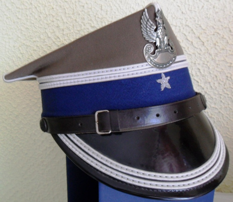 Major peaked hat. mechanized unit